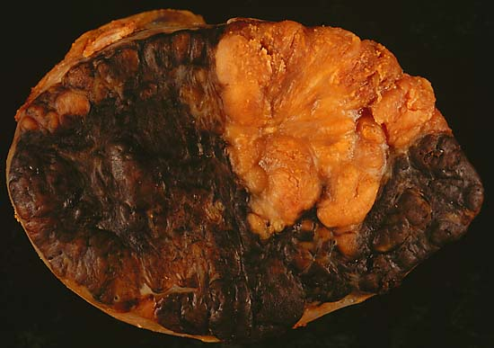 Metastatic Melanoma in Lymph Node This 6.5-centimeter mass was removed from the axilla of a middle-aged woman, who was a longtime resident of a developmental center for the severely disabled. She was unable to give any history, but there was no medical record of a primary melanoma, and we were unable to find any biopsy scars at the time of surgery. The dark brown color of the cut surface provided a clue to the diagnosis, an unusual finding in metastatic melanomas, which are more typically amelanotic (like the upper right segment of this specimen). Pigment was easily demonstrated in the tumor cells at frozen section, allowing a definitive diagnosis intraoperatively. Photograph by Ed Uthman, MD. Public domain. Posted 30 May 99